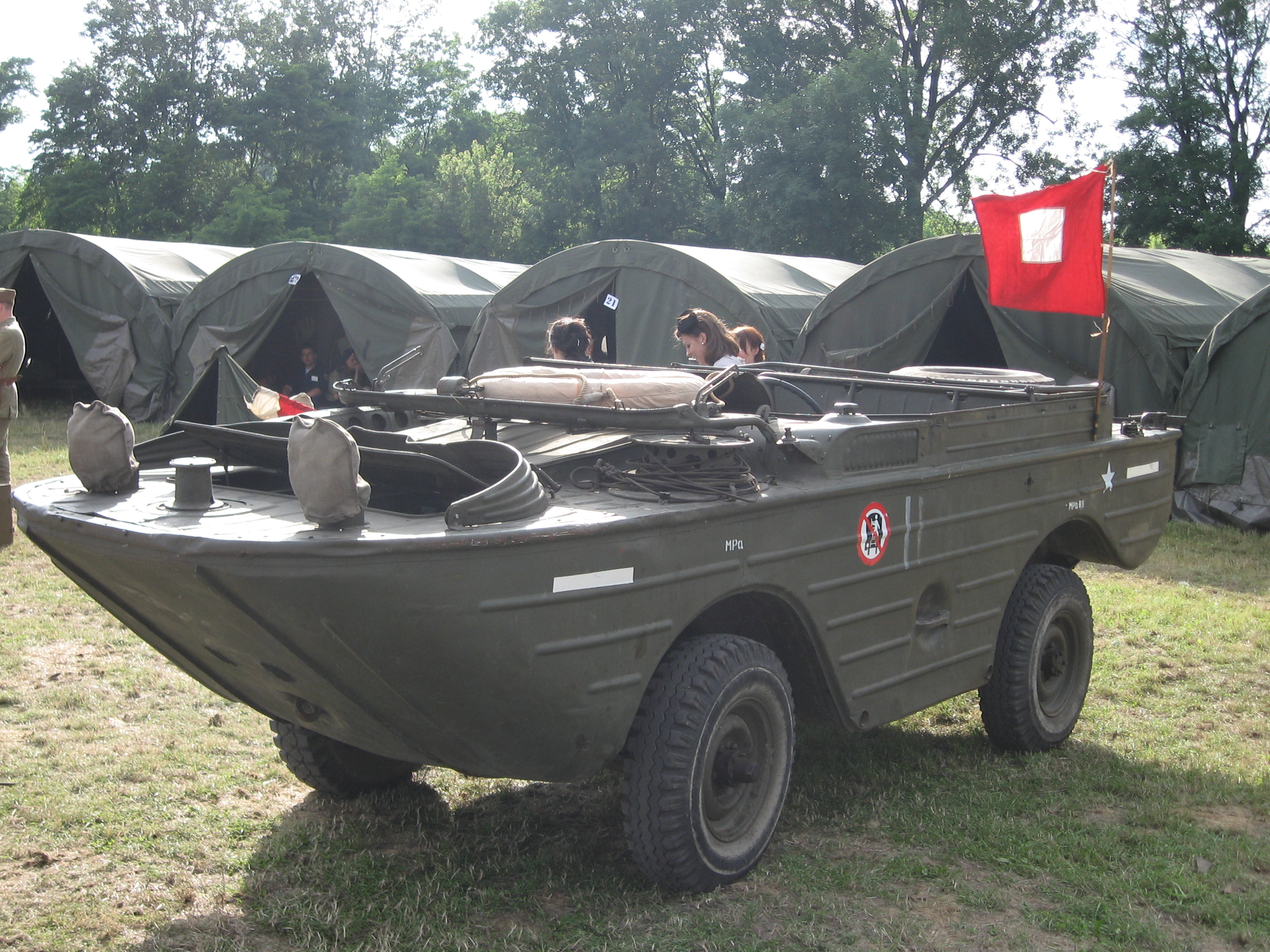 GAZ-46 visually modified to resemble a Ford GPA during the VII Aircraft Picnic in Kraków.